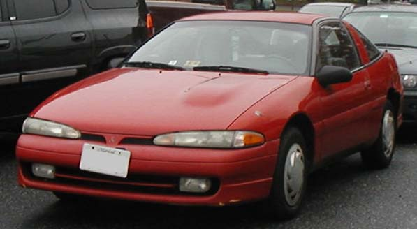 1992-1994 Mitsubishi Eclipse photographed in USA.